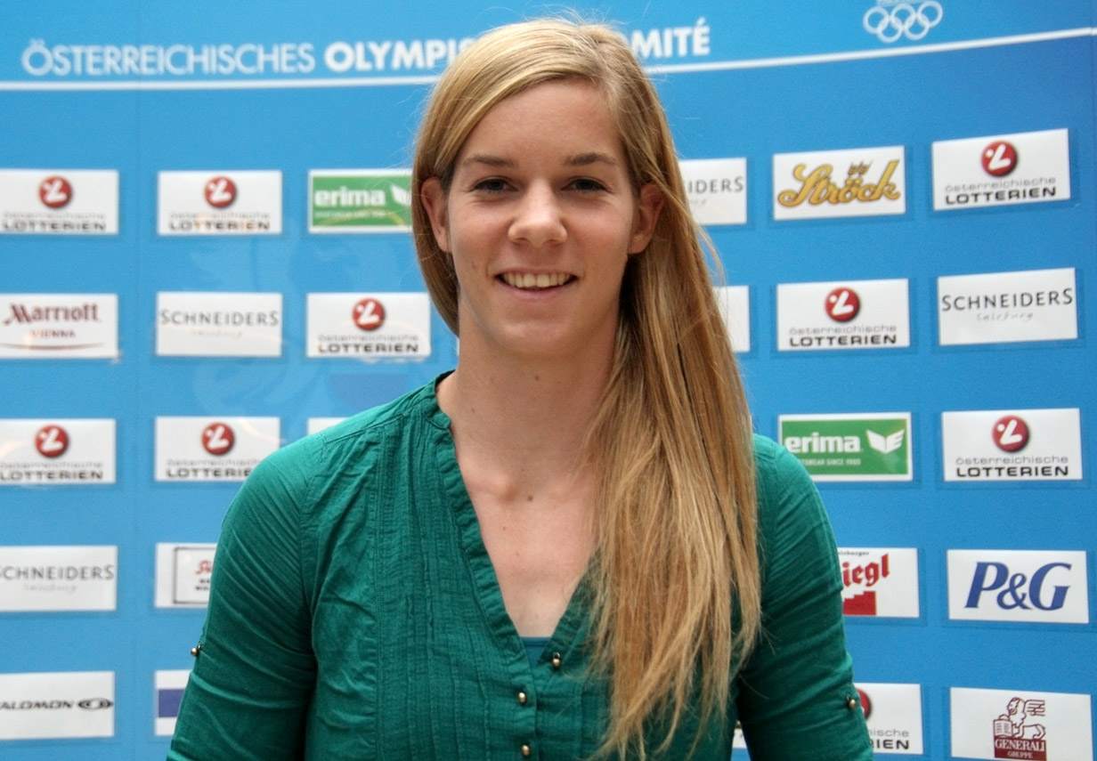 Track and field athlete Beate Schrott at the hand-out of the Austrian teams official attire for the 2012 Summer Olympics in London (Marriott, Vienna).